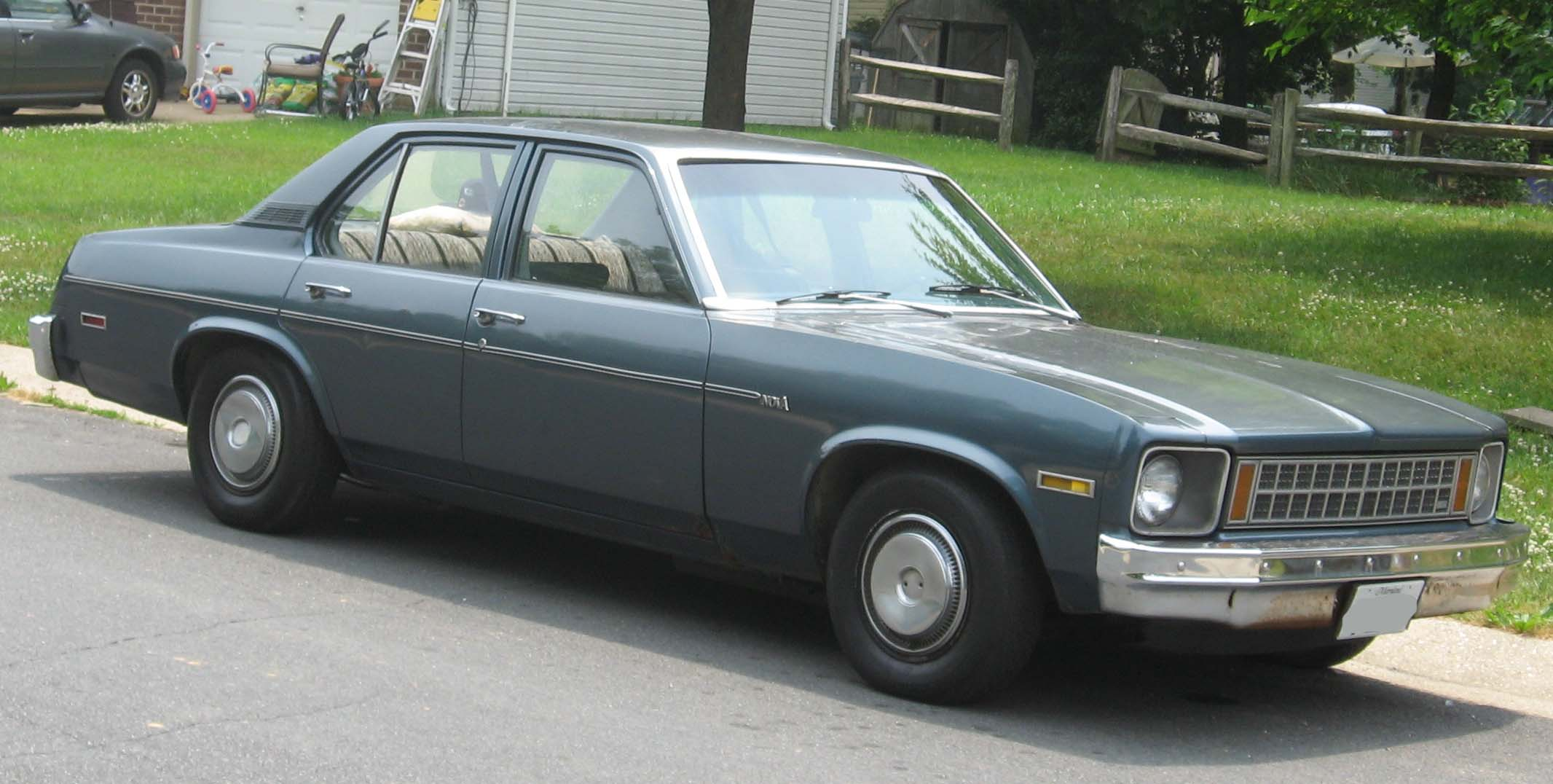 1975-1979 Chevrolet Nova photographed in USA.